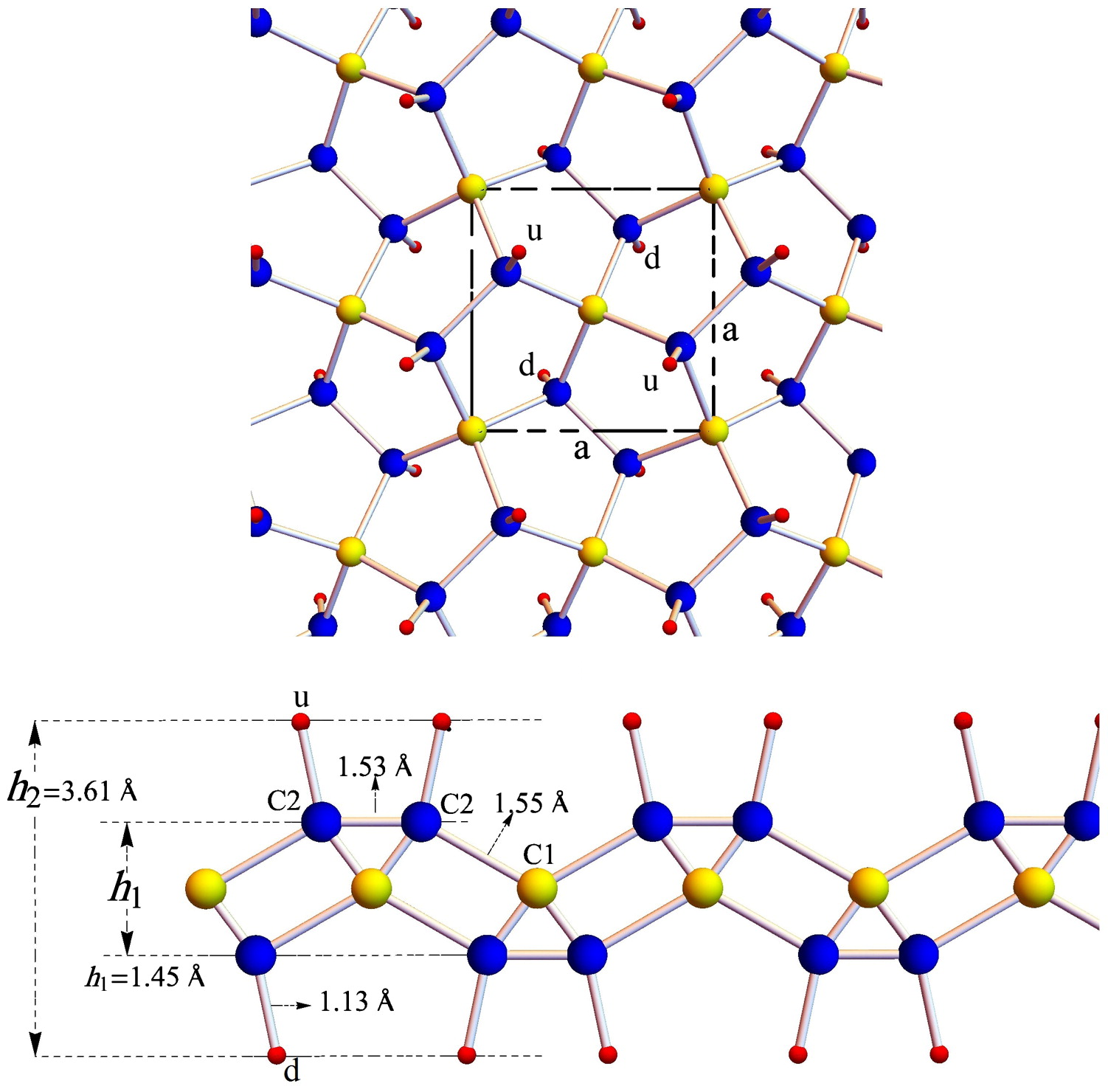 Top view (top) and side view (bottom) of the atomic structure of penta-graphane. Yellow, blue and red sphere represent C1, C2 and hydrogen atoms, respectively.